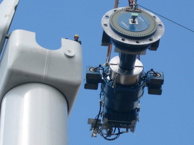 At 60 metres up from the ground the crane lifts the huge 12 ton gearbox and disk brake assembly in to position. The engineer stood in the nacelle is in contact by radio with the crane operator below